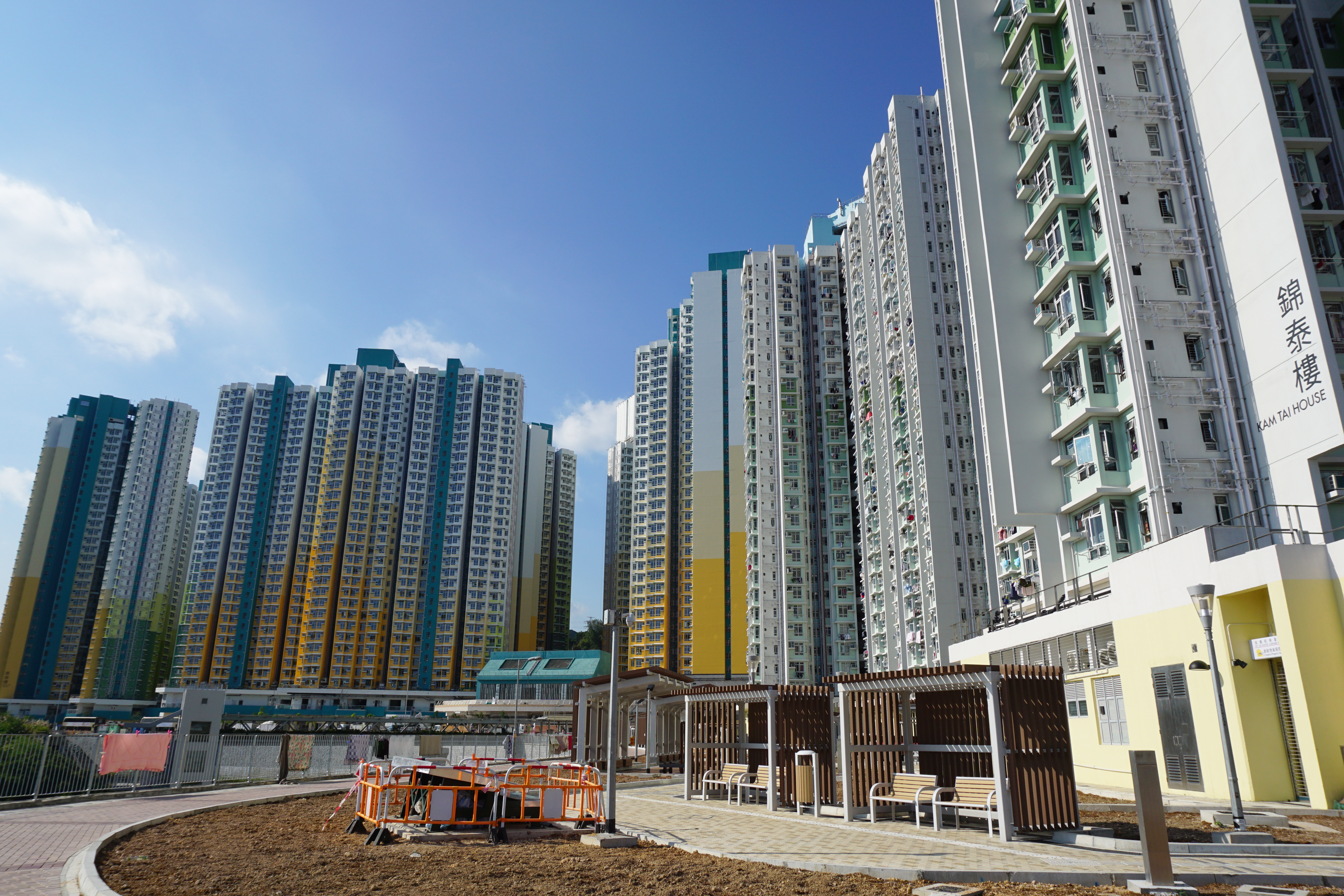 On Tai Estate in Sau Mau Ping, Hong Kong.